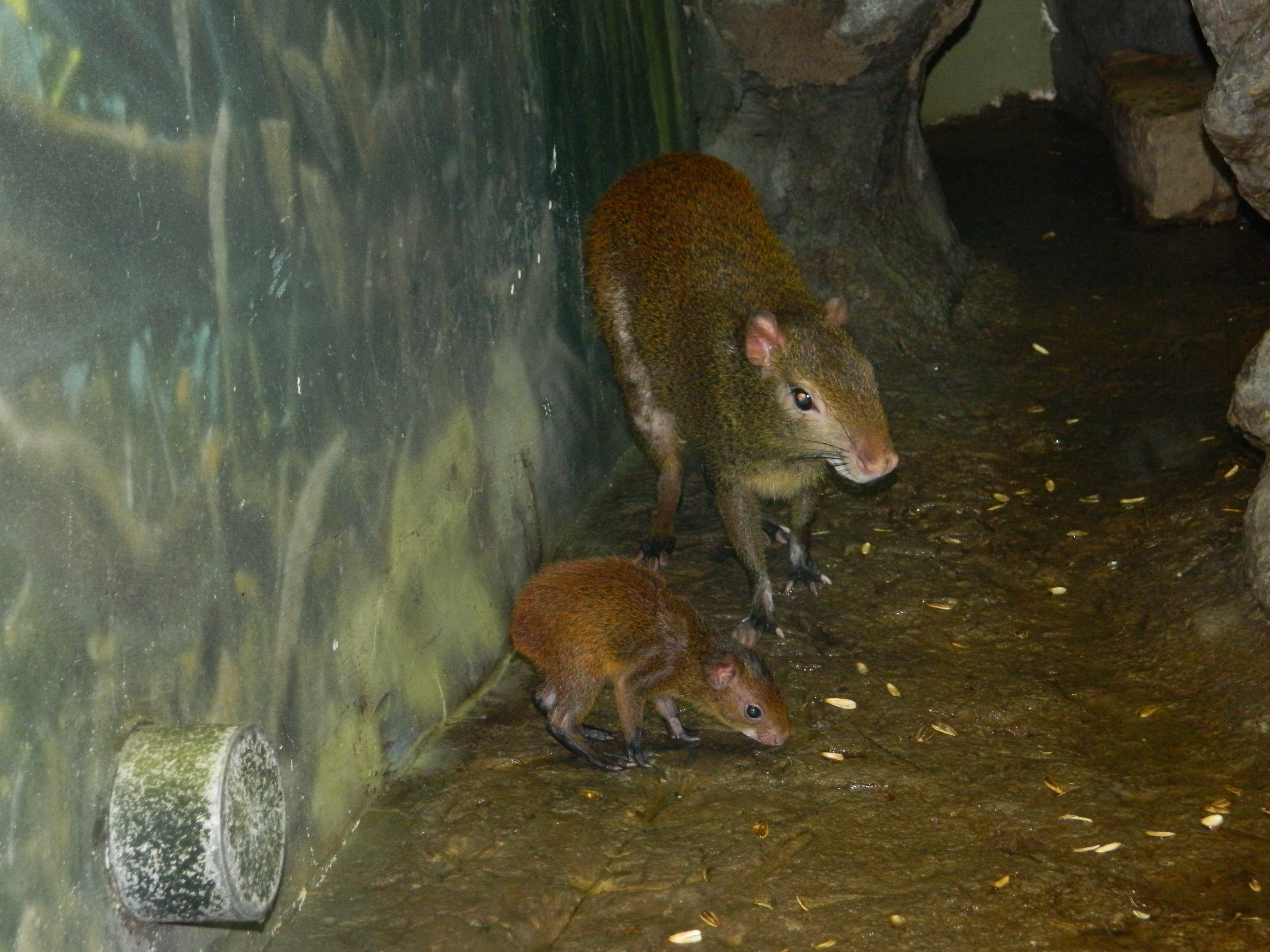 Adult female and juvenile Brazilian Agouti at the Buffalo Zoo.